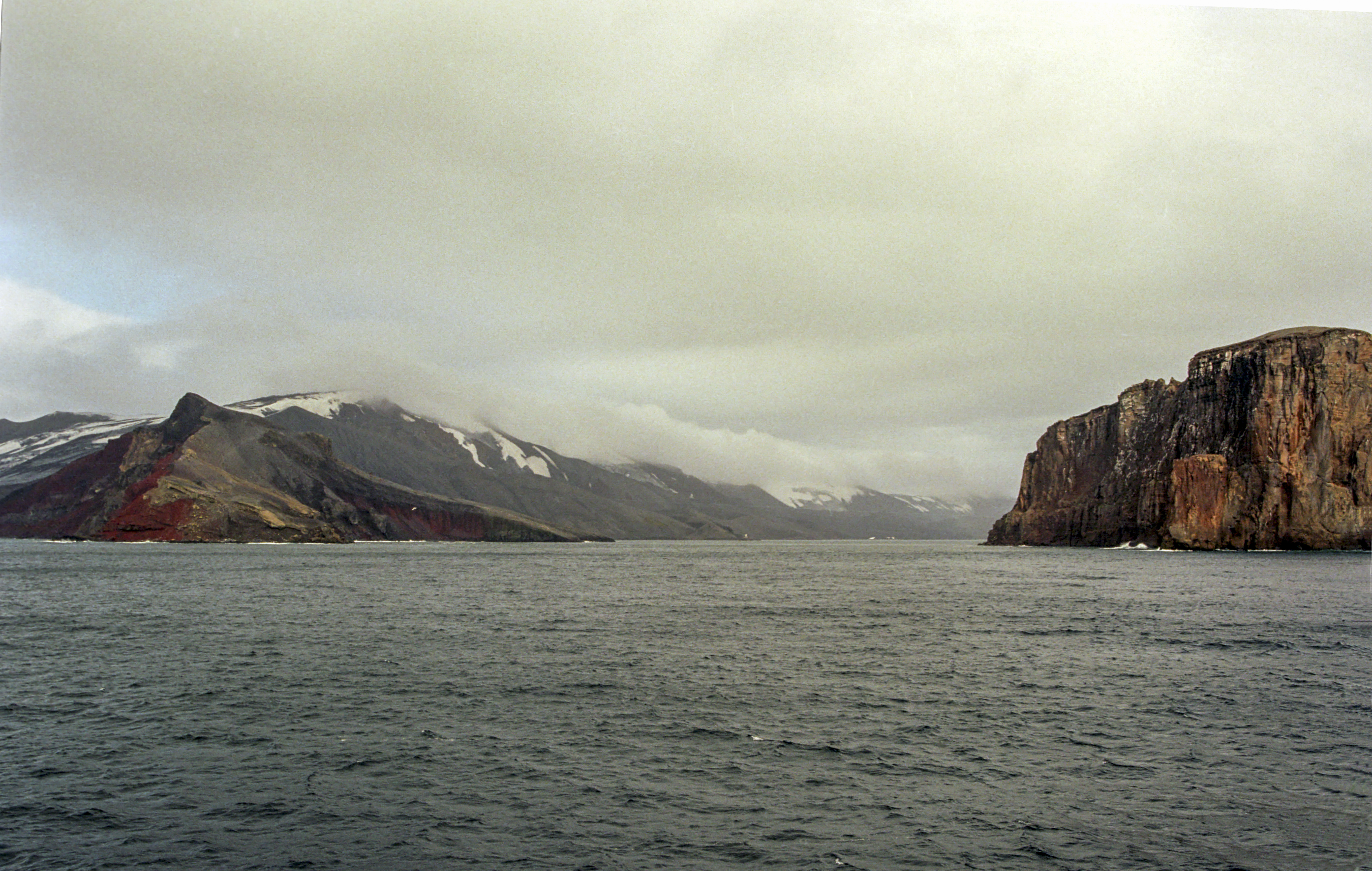 Antarctica, Deception Island